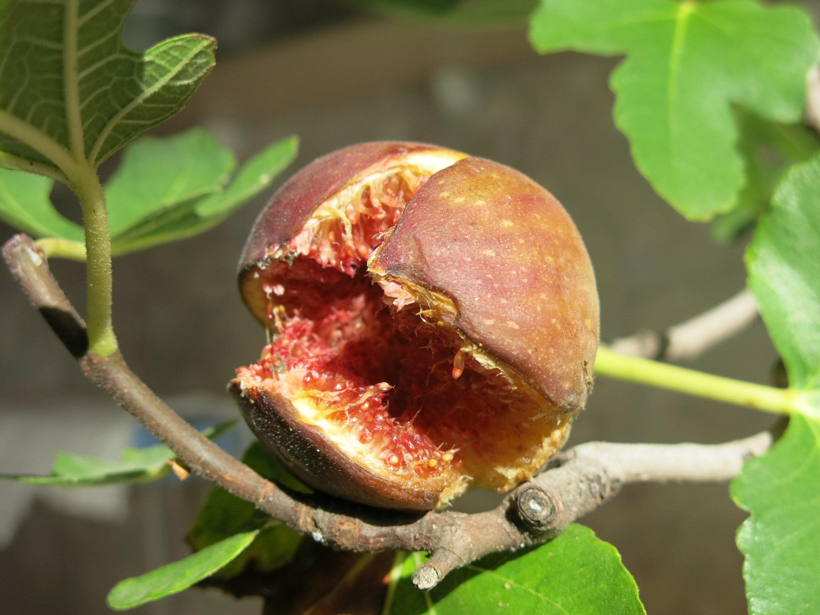 Ripe fig on a common fig bonsai. It was very tasty.